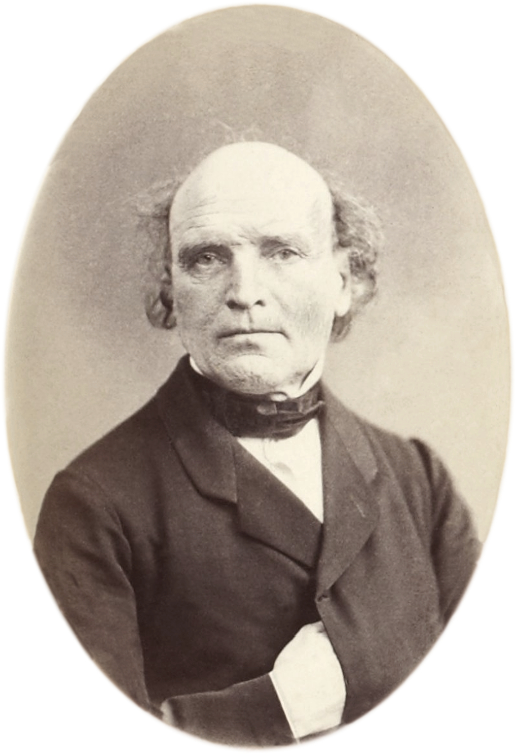 Louis Auvray (1810 - 1890), french sculptor, writer, and art critics.